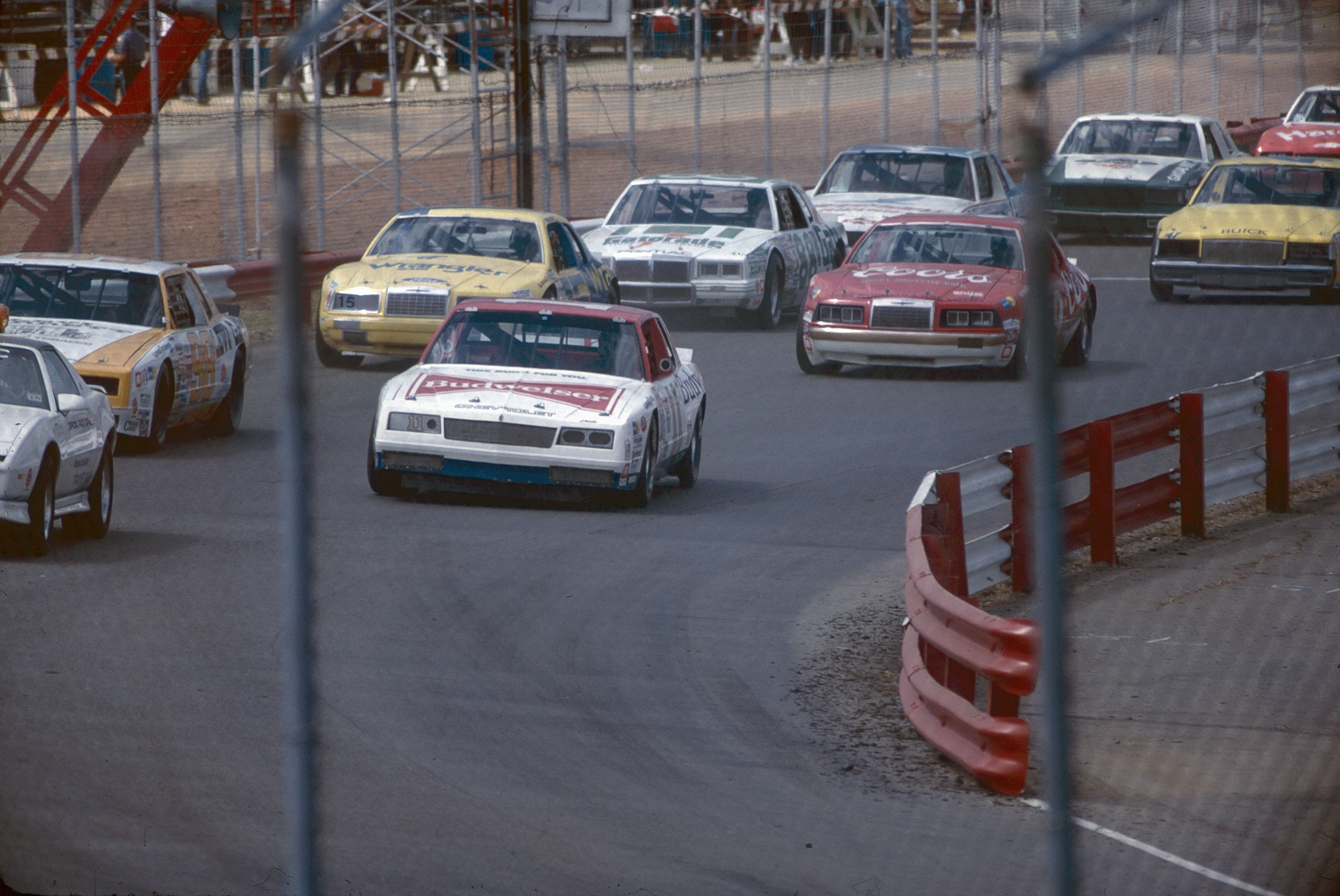 Richmond International Raceway when it was a 1/2 mile track (now it's a 3/4 mile track). Photo by Ted Van Pelt